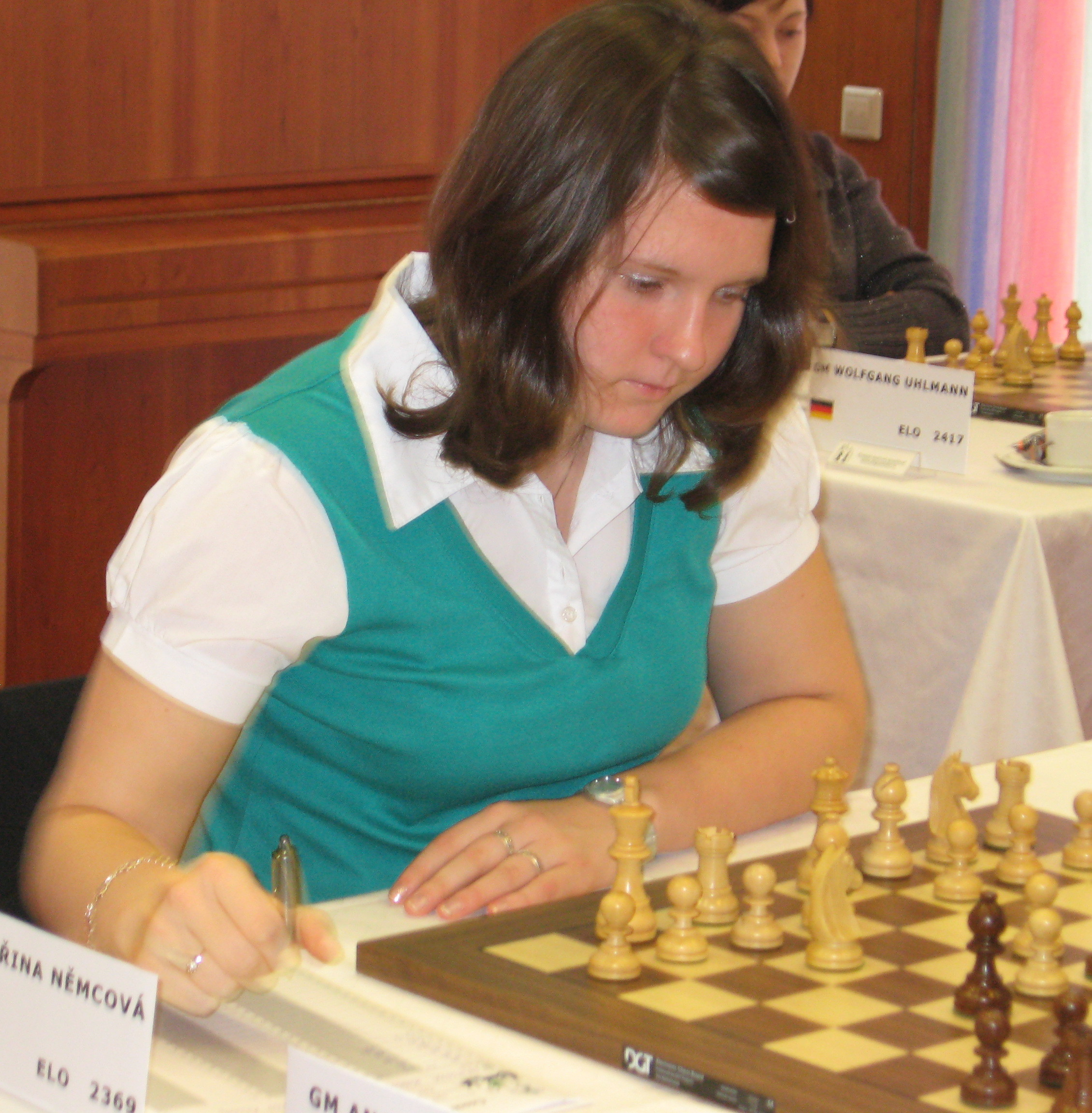 Kateřina Němcová